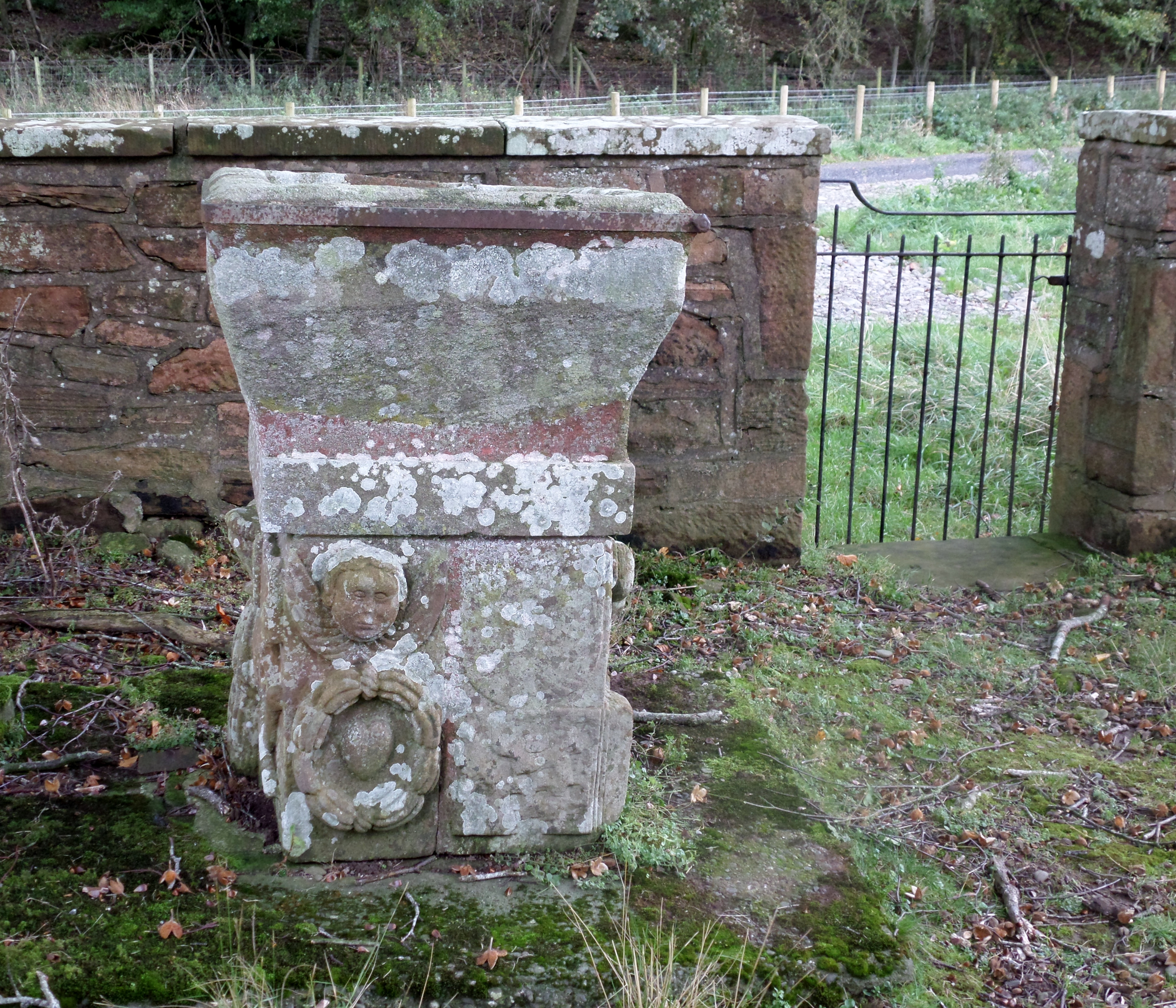 Dalgarnock burial ground, old kirk font, Dumfries & Galloway, Scotland. Base made from old burial stones.